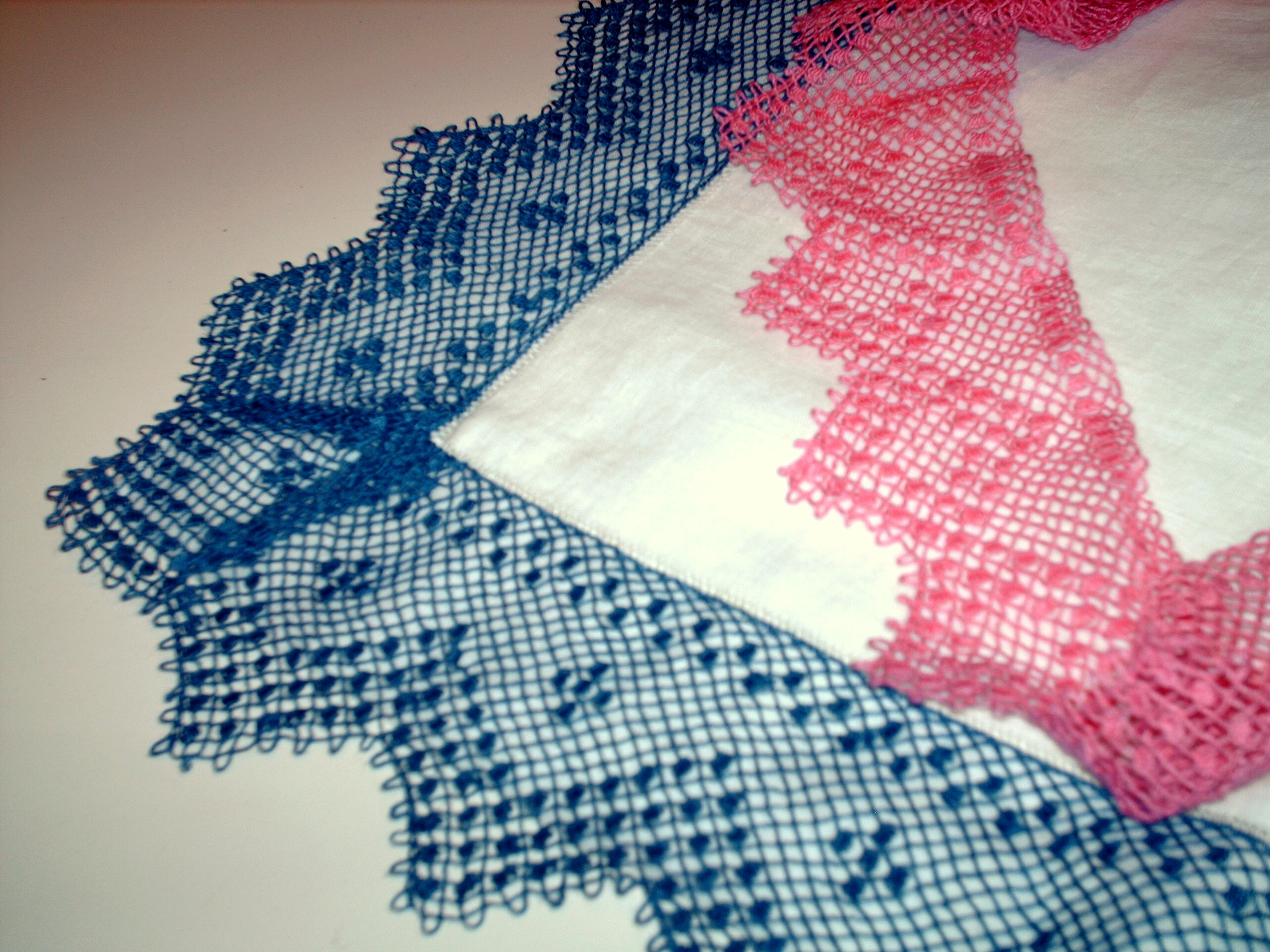 Typical puntino ad ago of the Italian village of Latronico, Basilicata.